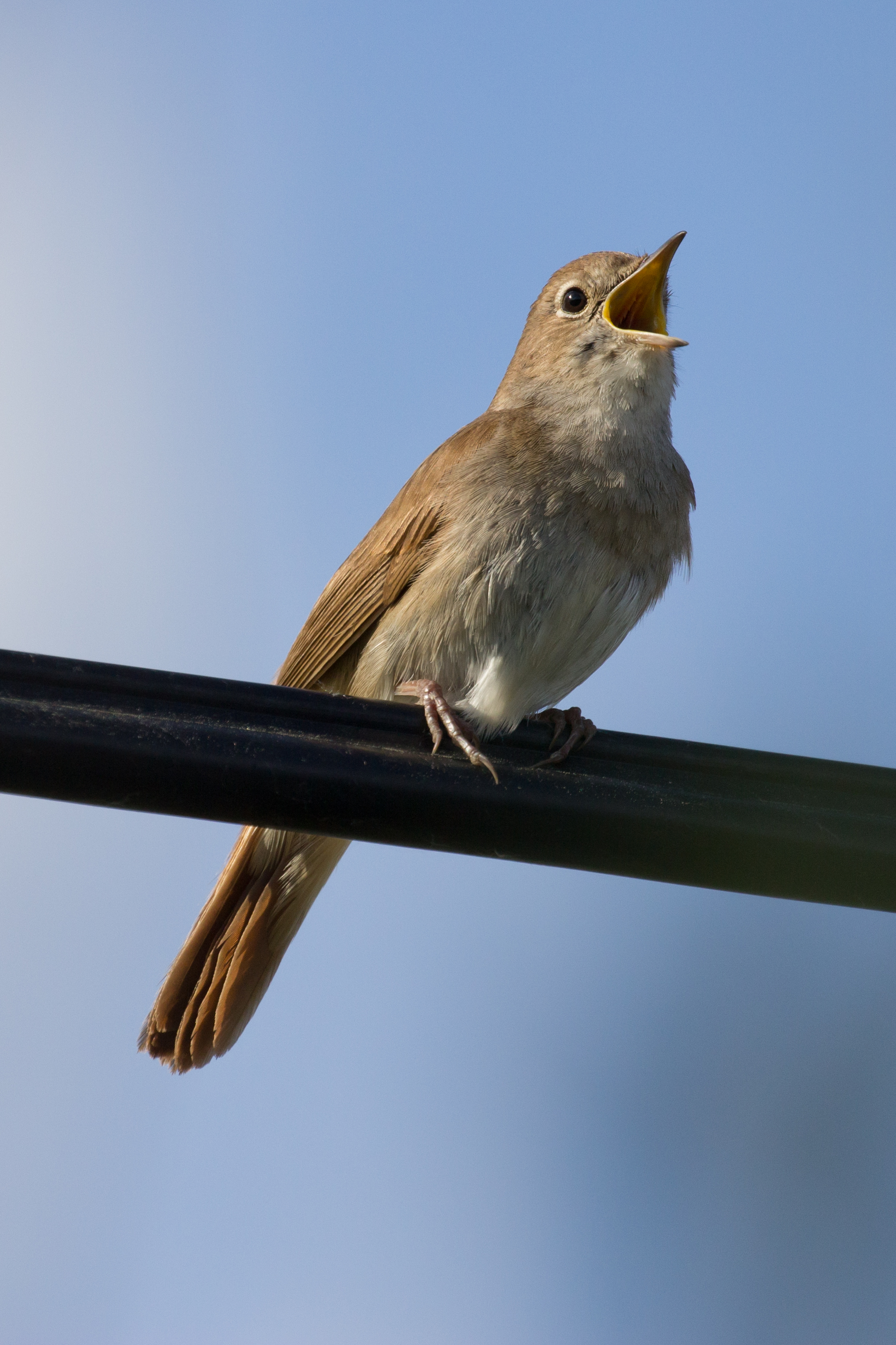 Nightingale (Luscinia megarhynchos) in Manzanares el Real, Community of Madrid, Spain.